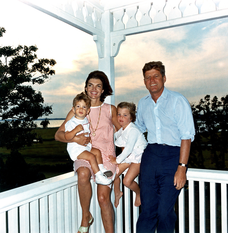 President John F. Kennedy, First Lady Jacqueline Kennedy, and their children John, Jr. and Caroline, at their summer house in Hyannis Port, Massachusetts.